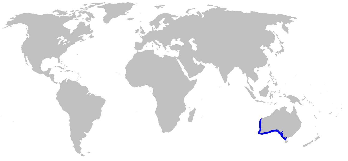 Distribution map for Furgaleus macki. Base map here.